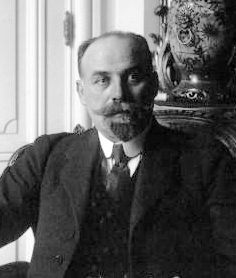 Montenegrin politician Lazar Mijušković (1867-1936).